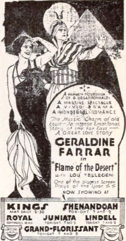 Newspaper advertisement for the American drama film Flame of the Desert (1919) with Geraldine Farrar and Lou Tellegen, originally for a chain of theaters in St. Louis, Missouri, on page 75 of the January 10, 1920 Exhibitors Herald.